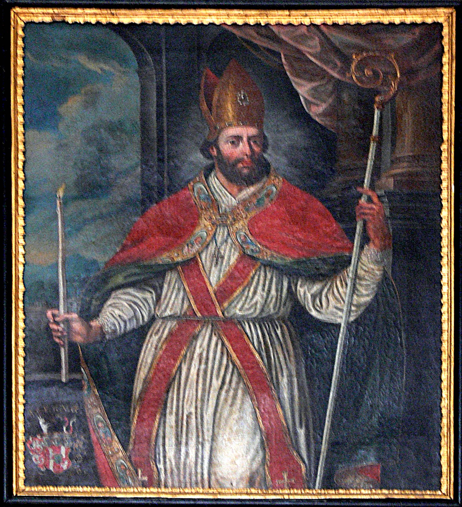 Berg near Rohrbach ( Upper Austria ). Maria-Trost church: Painting of Saint Blaise ( 1740 ).